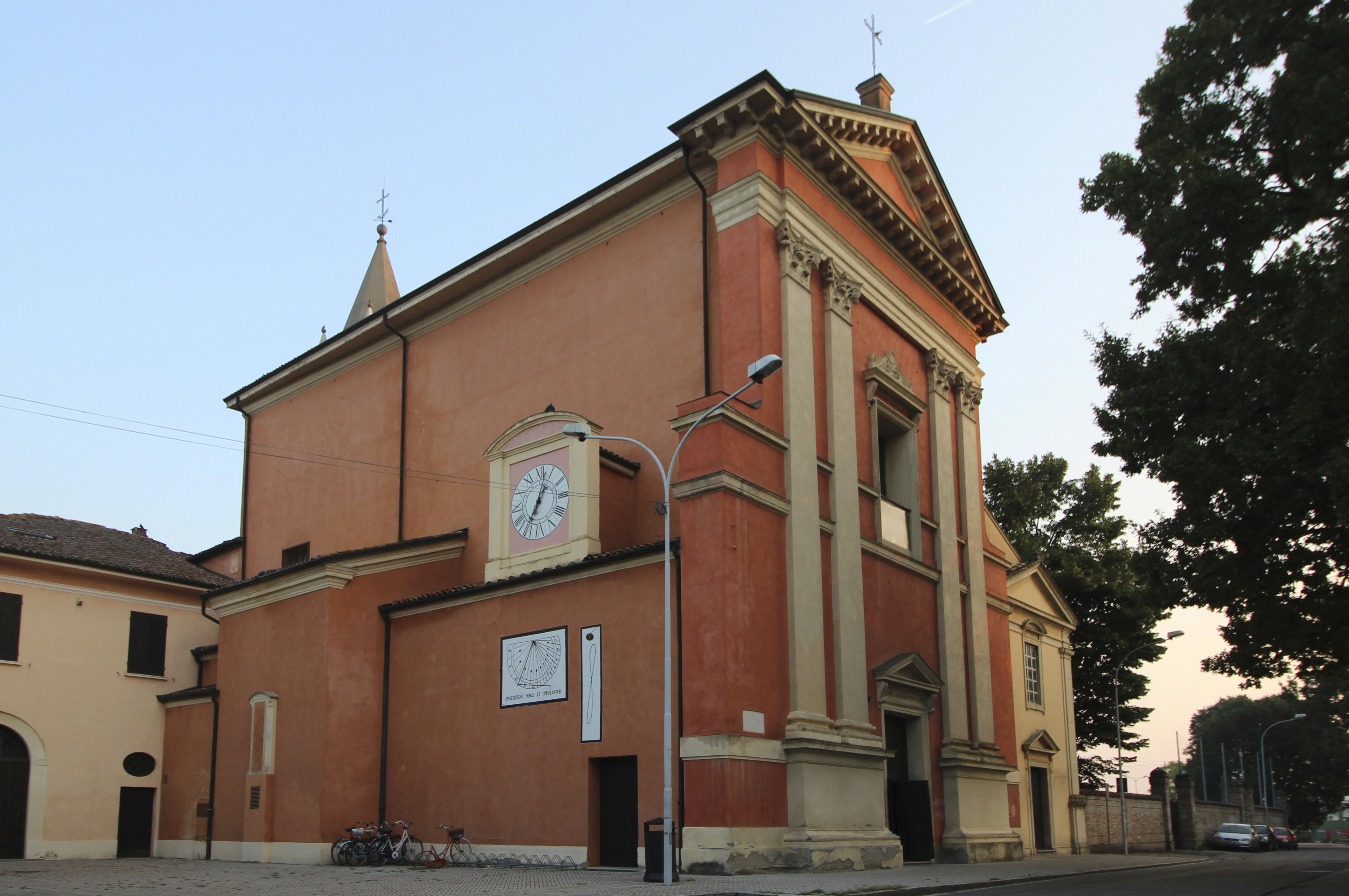 Church Santi Pietro e Paolo, Anzola dellEmilia, metropolitan city of Bologna, Emilia-Romagna, Italy